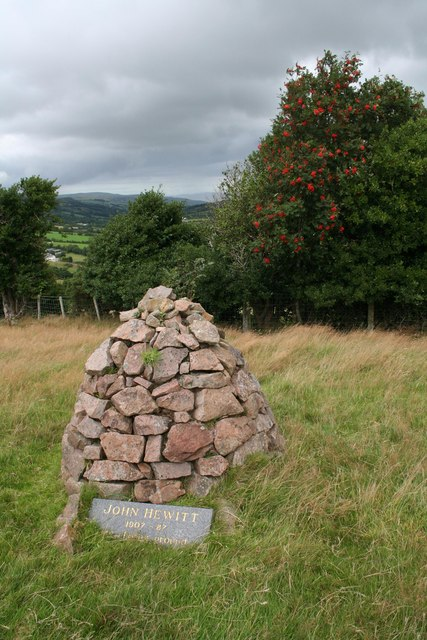 John Hewitt's Cairn. Irish Poet 1907 - 1987. Some say this is John Hewitt's grave, but more likely this was his favourite spot.